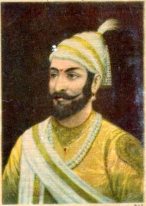 Vinatge Raja Ravi Varma Lithograph: Shivaji : 3" x 5"